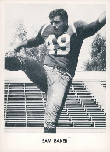 An publicity image of Washington Redskins player Sam Baker.